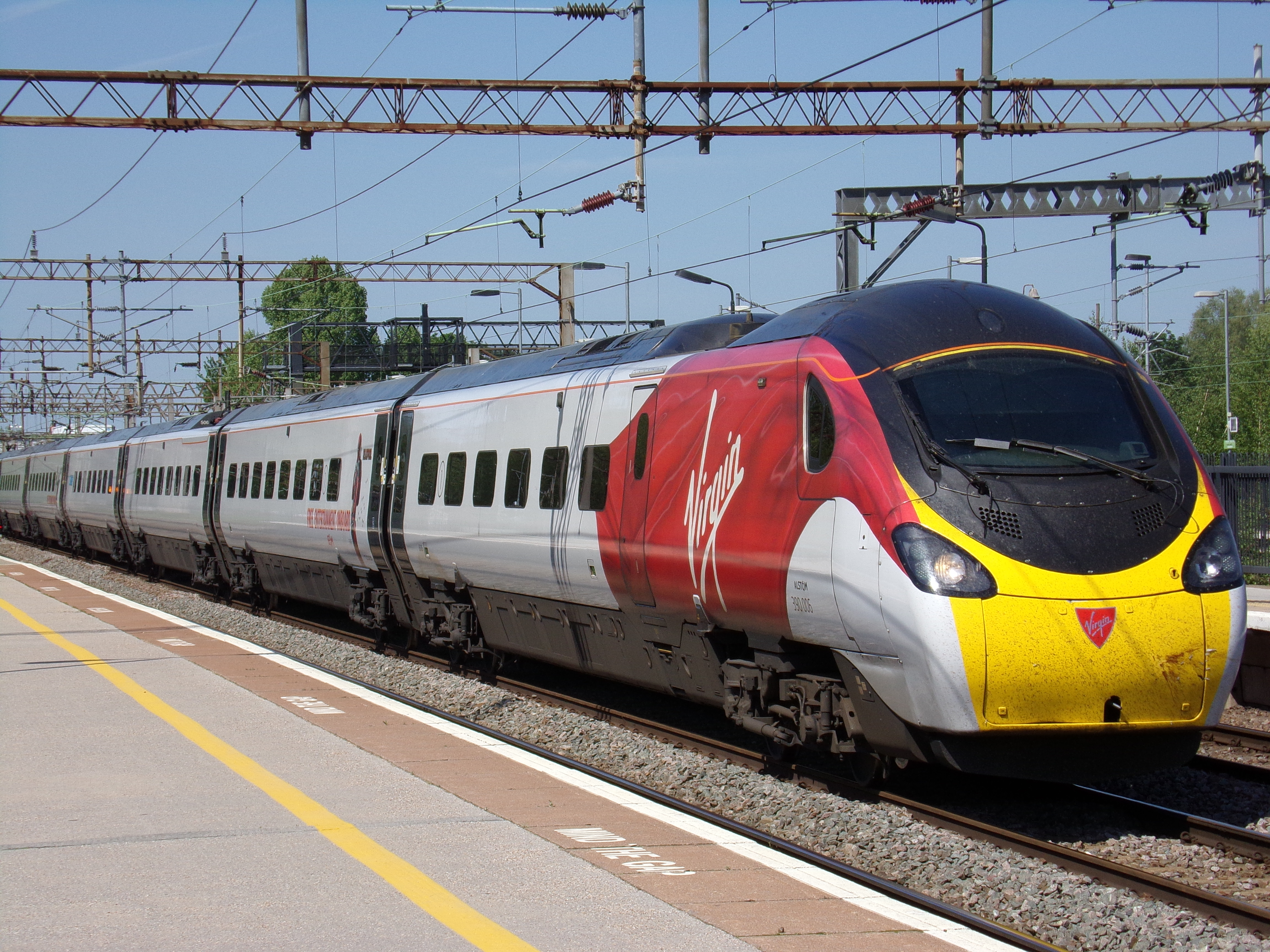 Virgin Trains West Coast Class 390 390006 Passing Northampton on 5Z02 Preston to London Euston